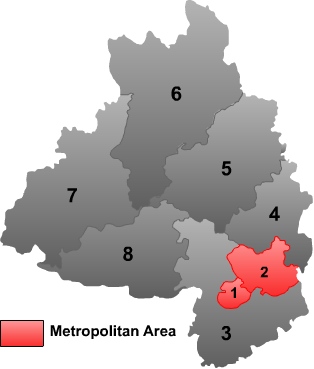 Map of Zhaoqing in Guangdong province.